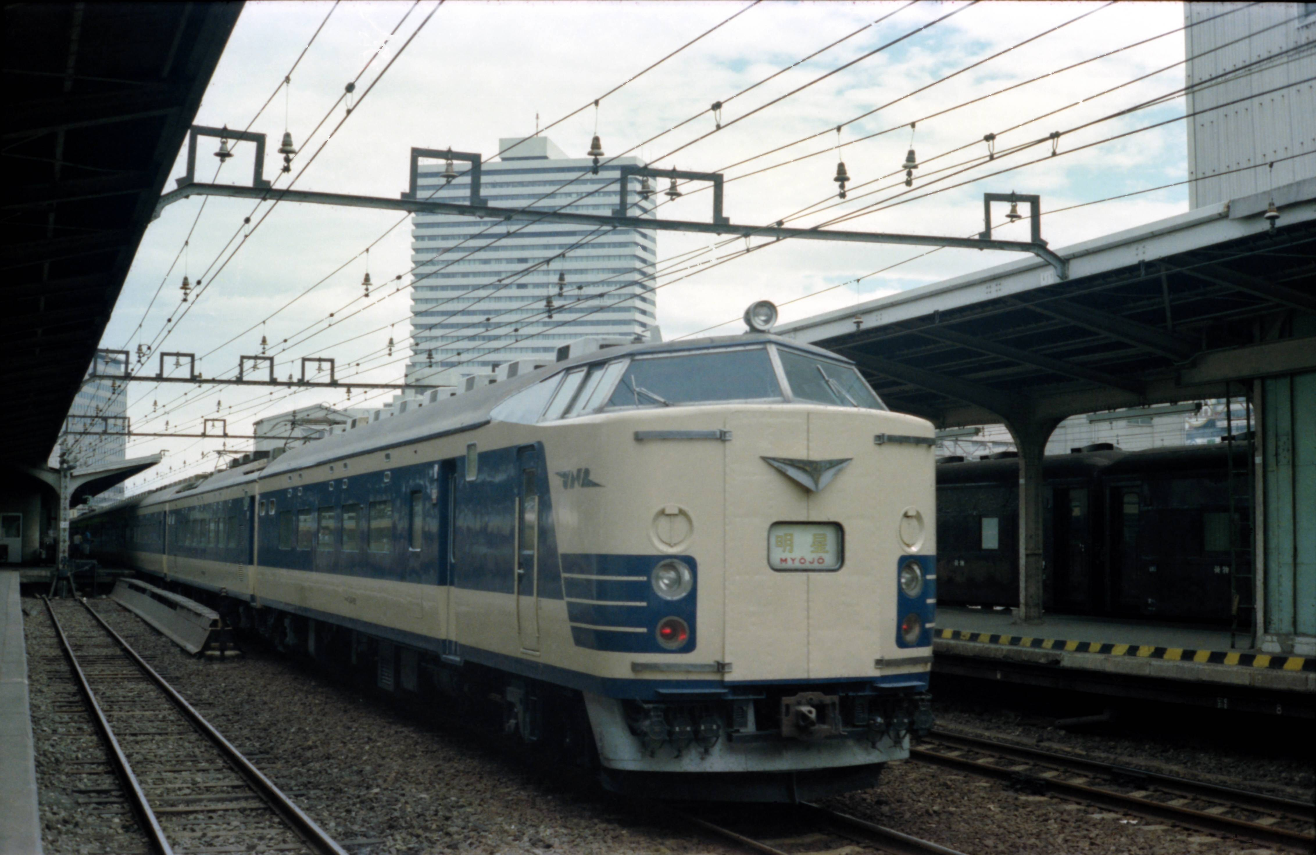 Osaka Station